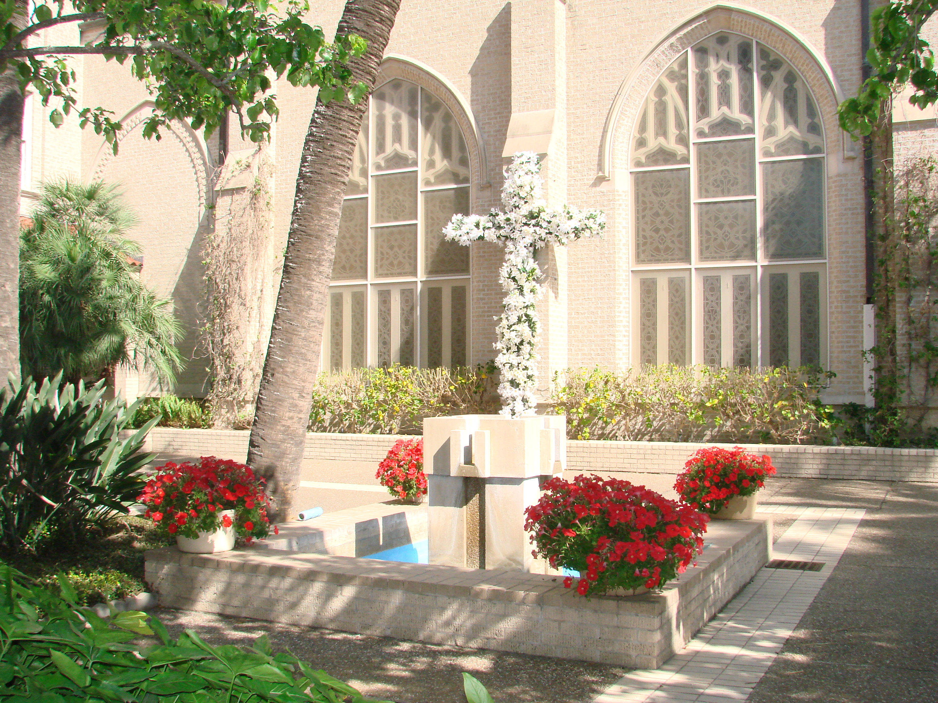 Courtyard of First Presbyterian Church of Corpus Christi. The courtyard was created when additional meeting space was added to the facility in 1970.